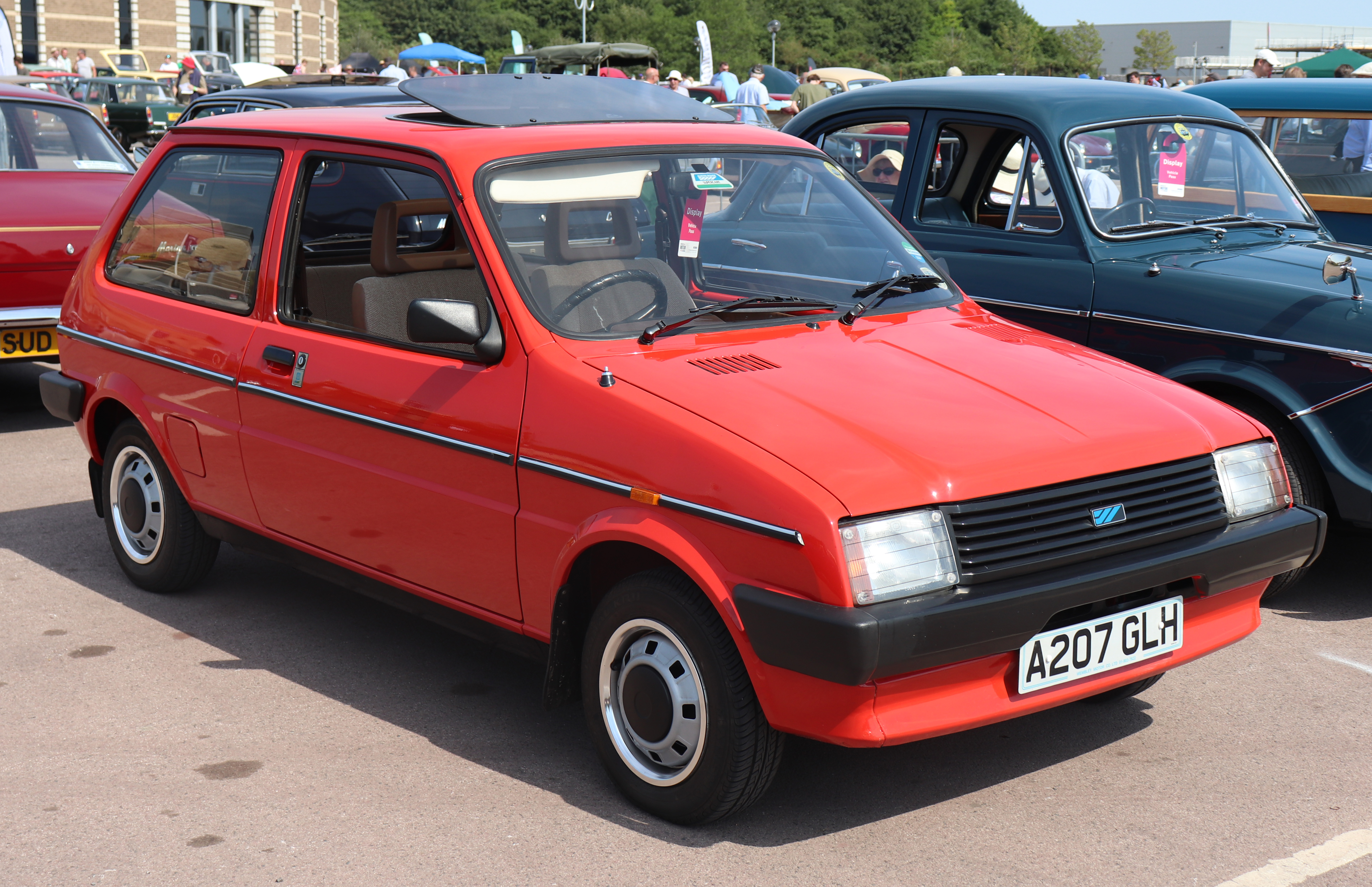 1983 Austin Metro Automatic 1.3 Front Taken at the British Motor Museum BMC & Leyland Show 2018, Gaydon